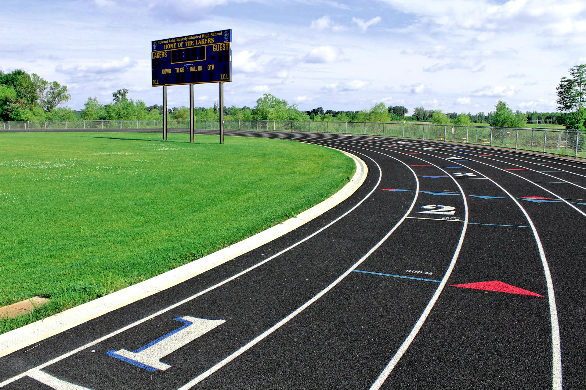 Starting curve of athletic track with scoreboard in background.